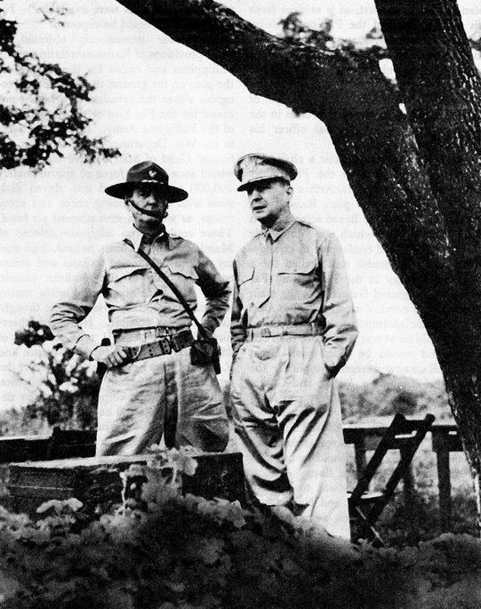 GeneraL MacArthur with Maj. Gen. Jonathan M. Wainwright on 10 October 1941.